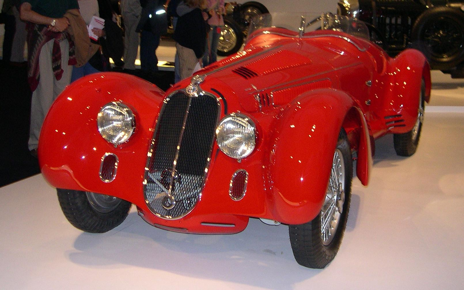 1938 Alfa Romeo 8C 2900 Mille Miglia From the Ralph Lauren collection on display at the Boston Museum of Fine Arts. Photo taken in 2005.